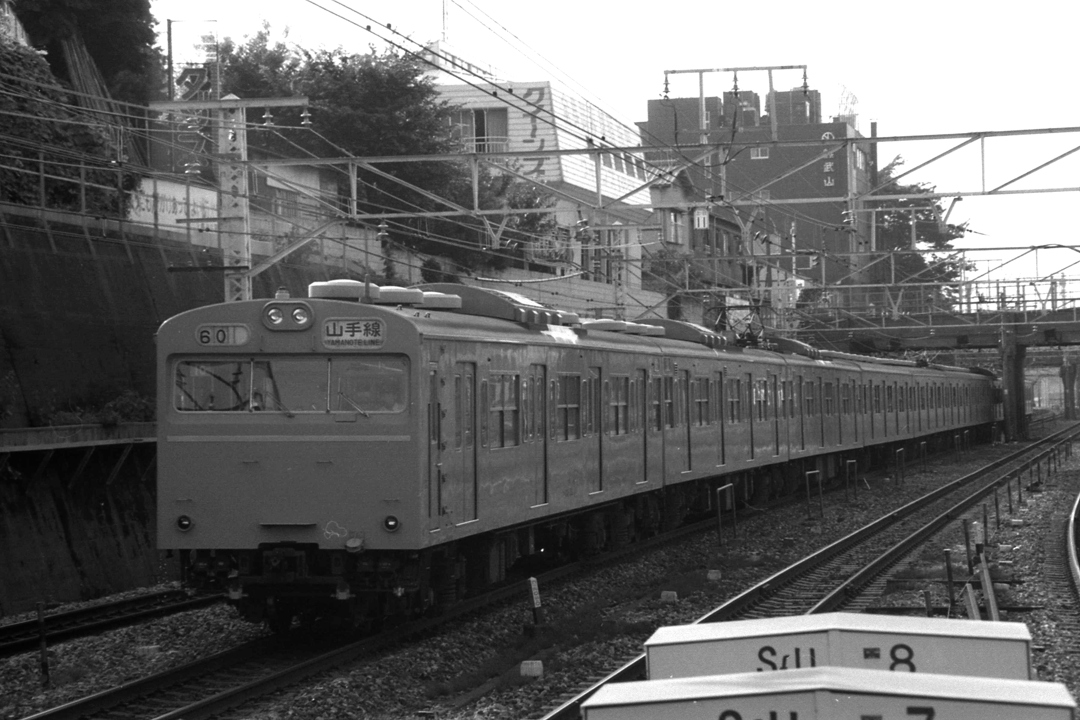 A JNR 103 series Yamanote Line EMU leaving Uguisudani Station in Tokyo